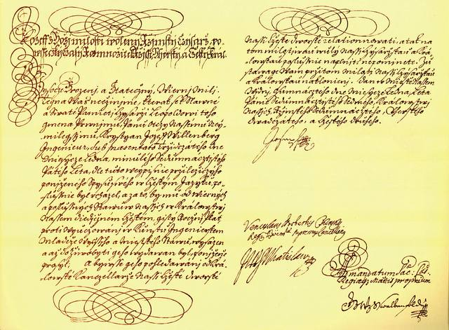 The first and last page of a rescript of Joseph I., HRE, allowing creation of the Czech Polytechnics